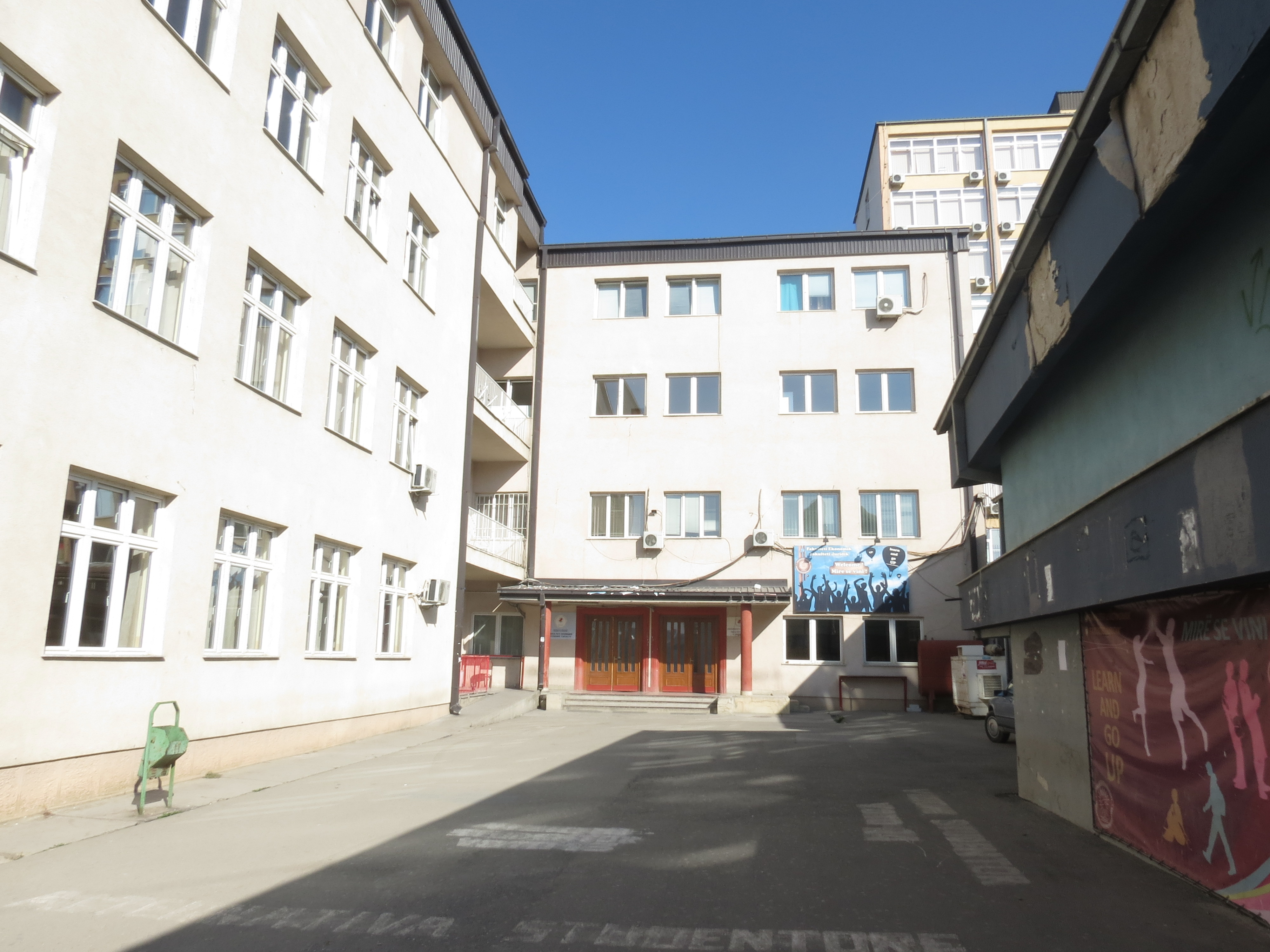 Law and Economic Faculty of the University of Pristina in Kosovo.